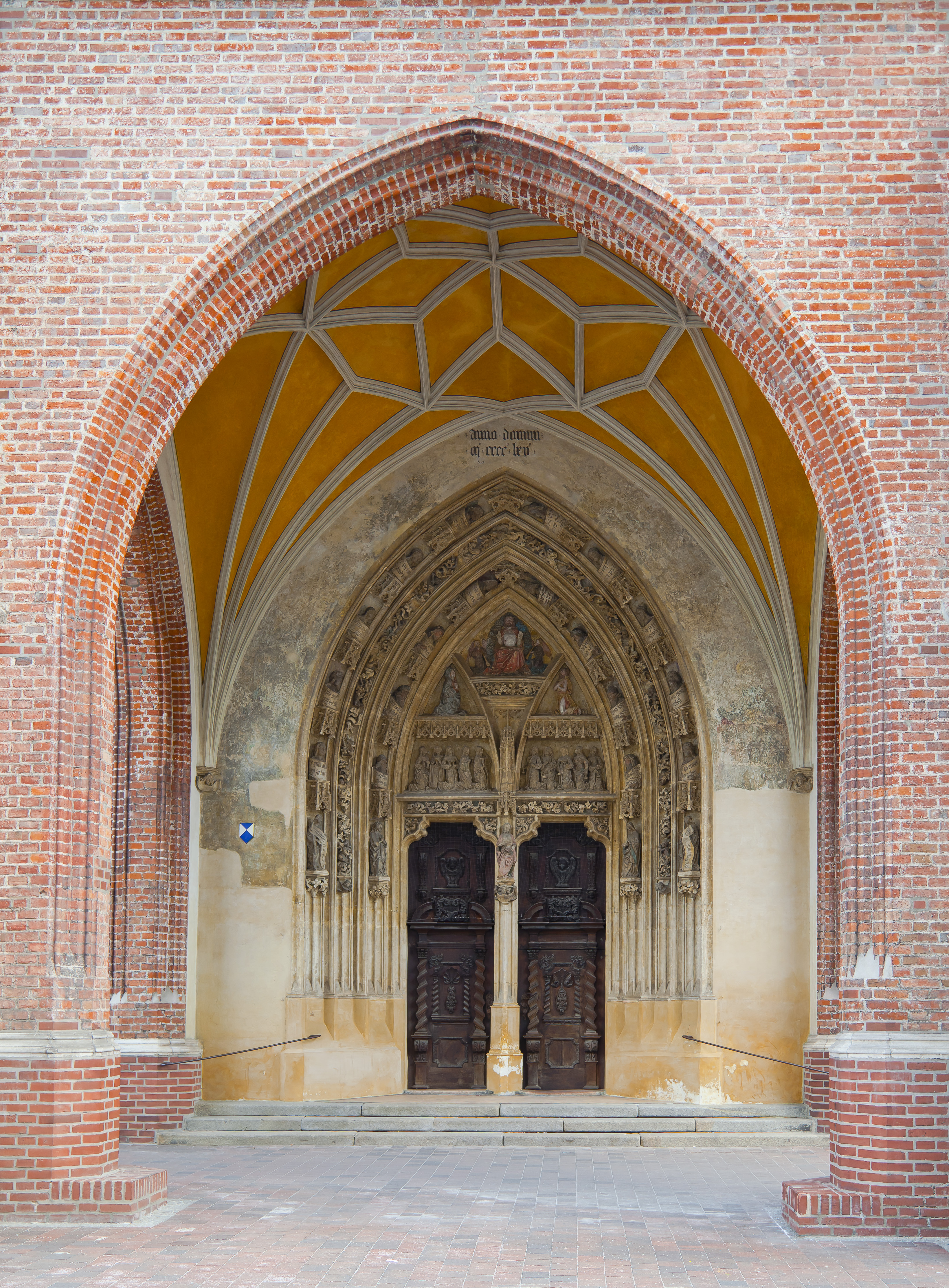 Church of the Holy Spirit, Landshut, Germany.